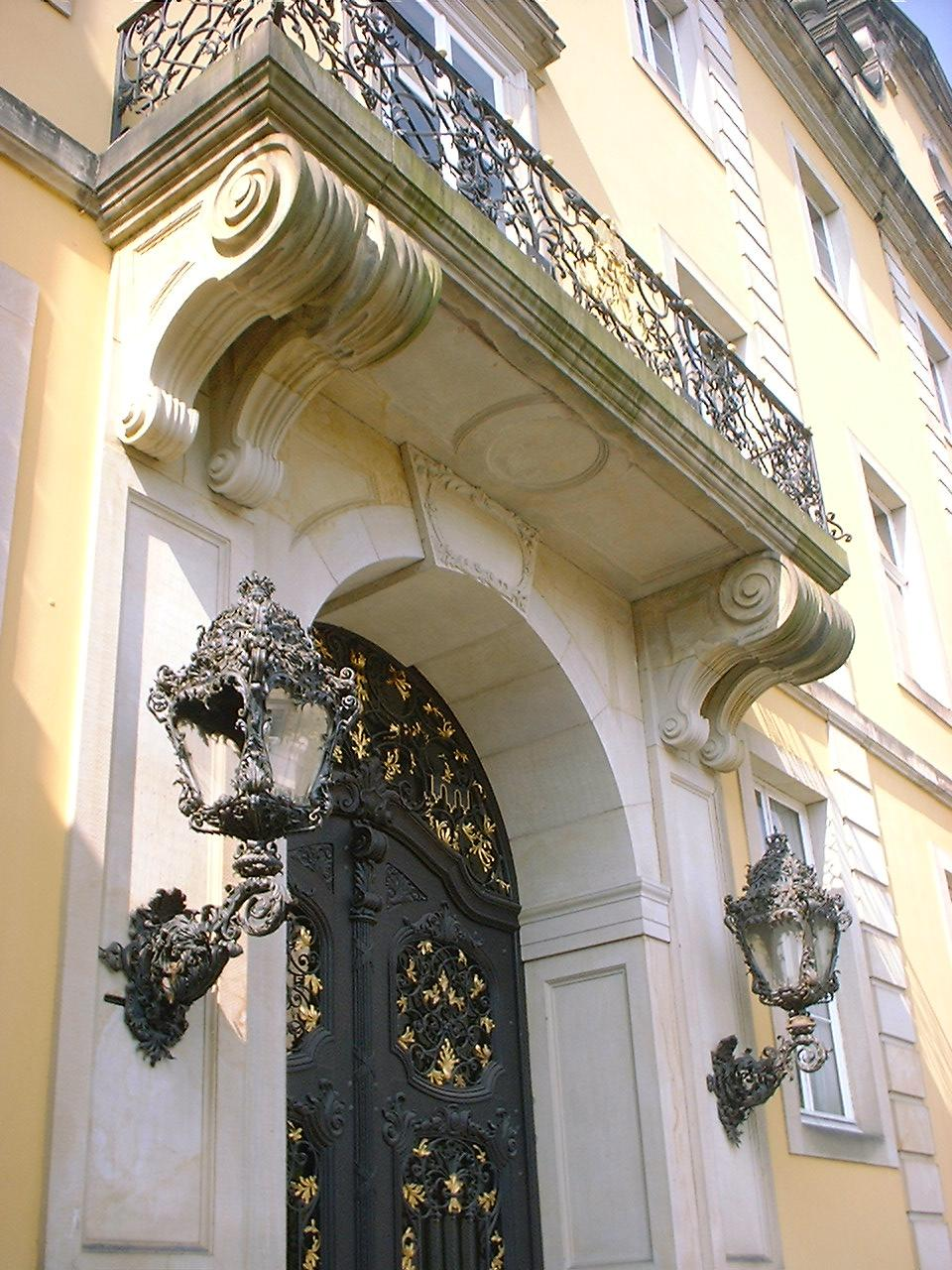 Bückeburg Palace in Bückeburg in Lower Saxony, Germany